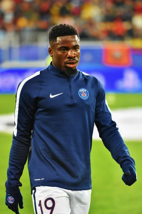 Serge Aurier